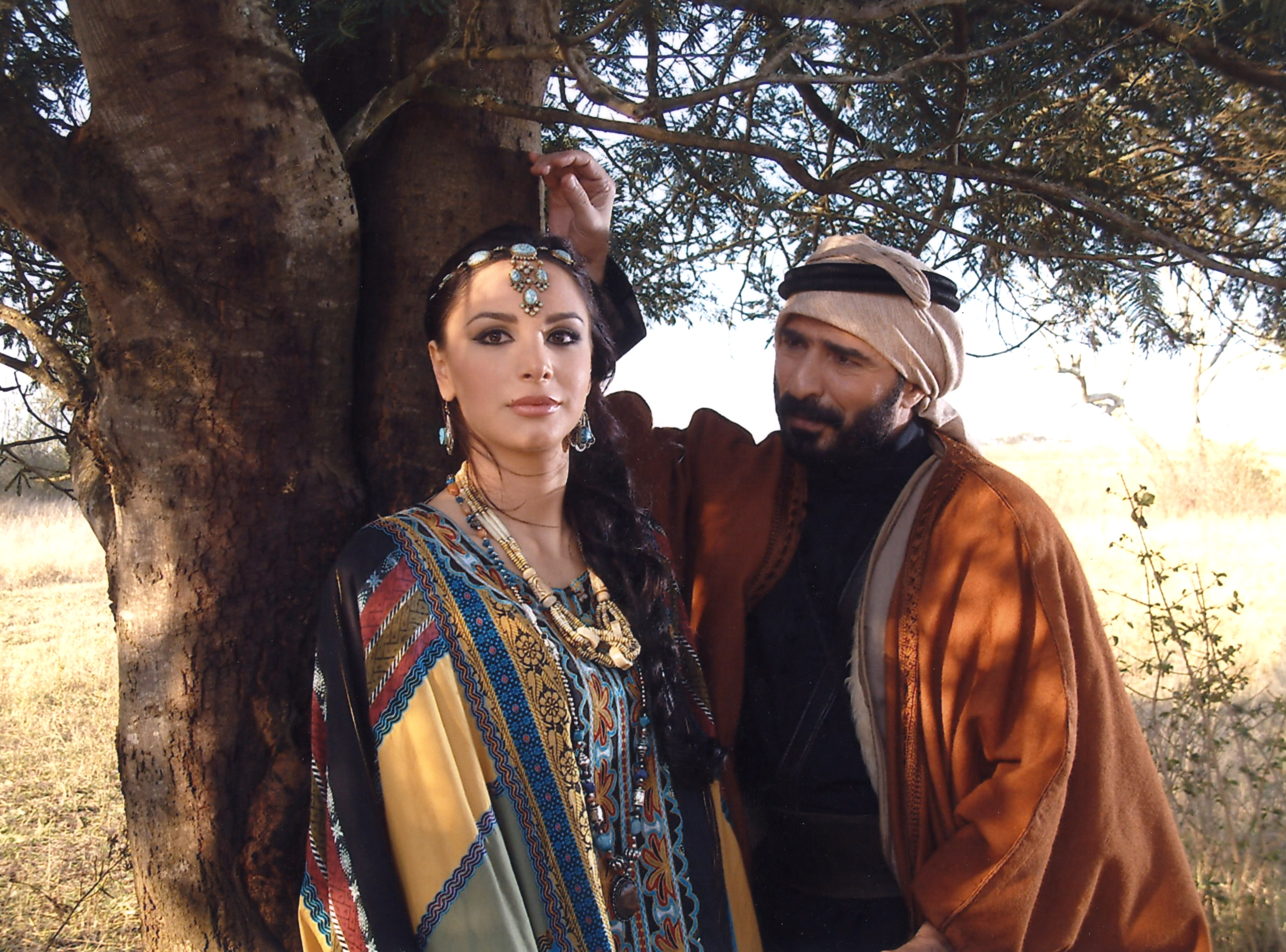 JOELLE BEHLOK, Miss Lebanon 1997 - Lebanese Actress in the Drama series as the lead female role - Princess Shaima and Syrian Actor Raheed Assaf in the Lead Role of Bashar in the Drama series "The Last Cavalier" on location